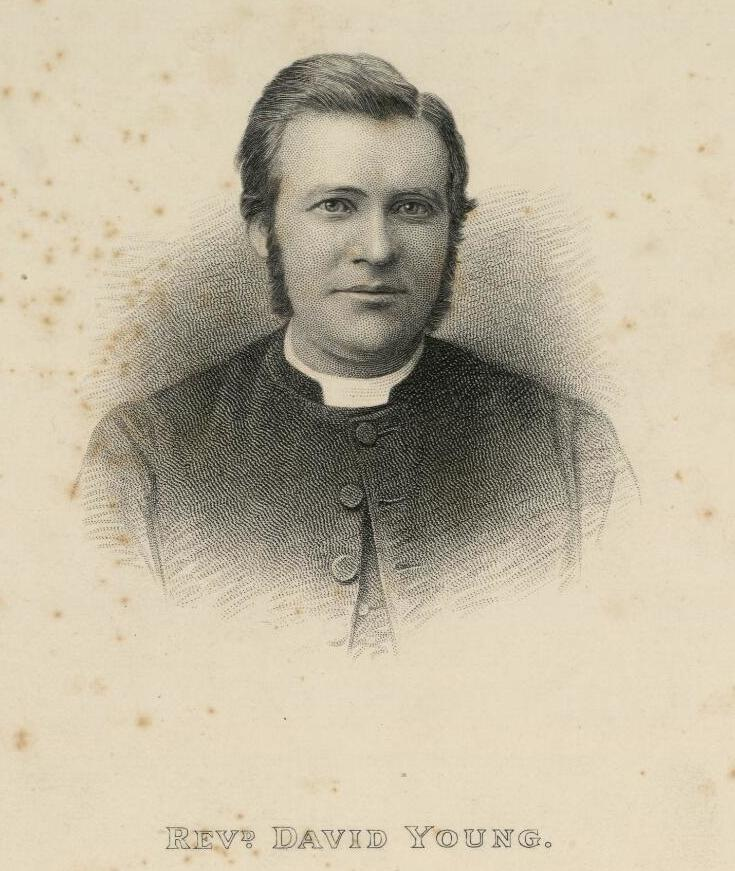 A portrait from the Welsh Portrait Collection at the National Library of Wales. Depicted person: David Young – Wesleyan minister and historian (1844 -1913)